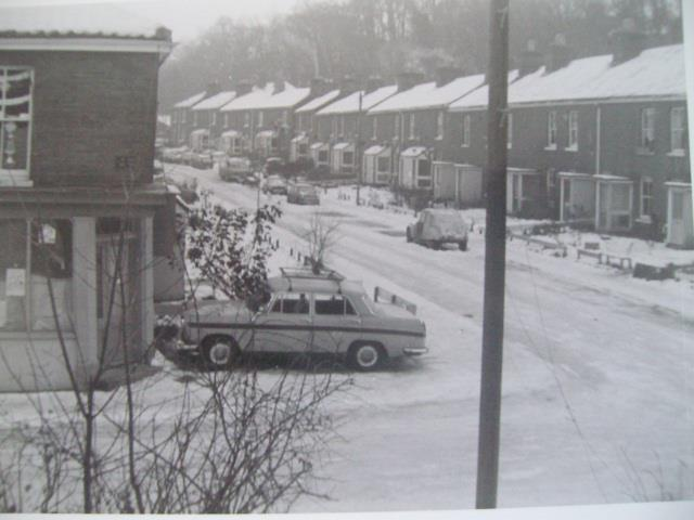 This is a black and white photo taken of the Victorian terraced housing of Argyle Street Norwich in the Winter of 1981